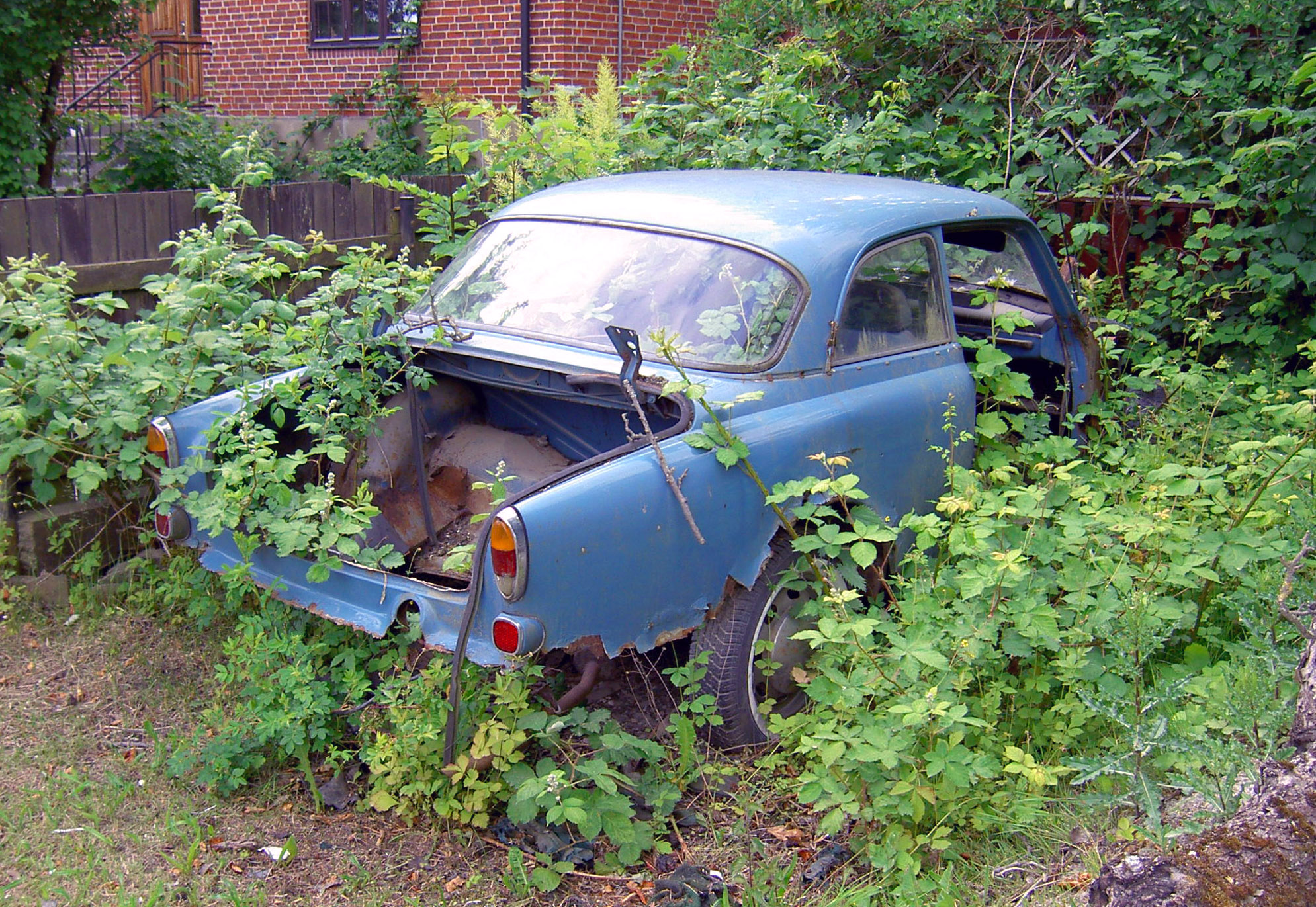 A Volvo Amazon that's seen better days